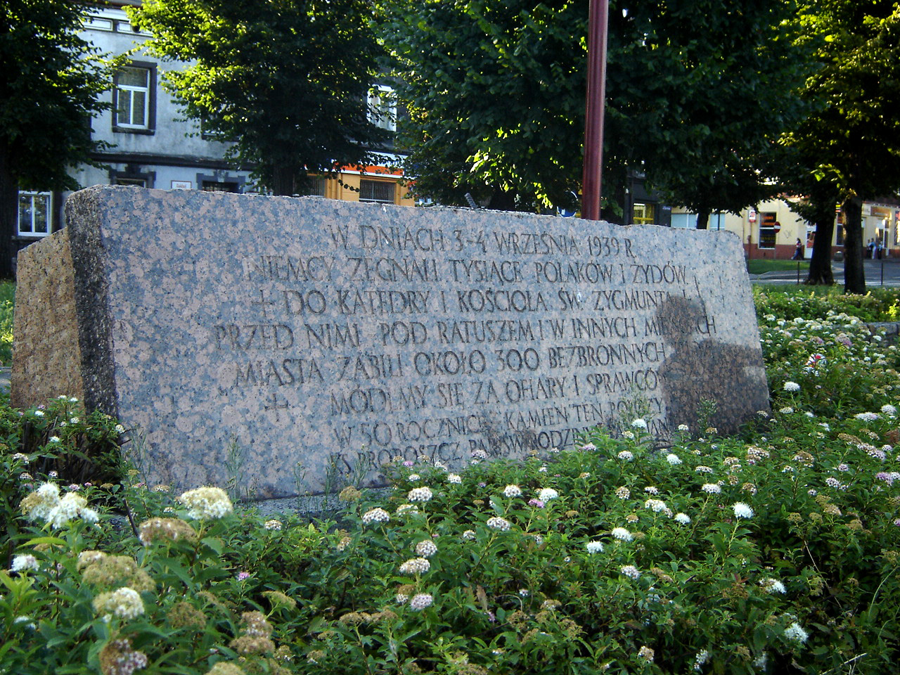 Częstochowa, Poland. John Paul II Square. Memorial stone reading: "On the 3-4 of September 1939, the Germans executed 300 innocent hostages at this place after herding thousands of Poles and Jews into the Cathedral and the Church of St. Zygmunt including other locations in the city. Let us pray for the repose of their souls."